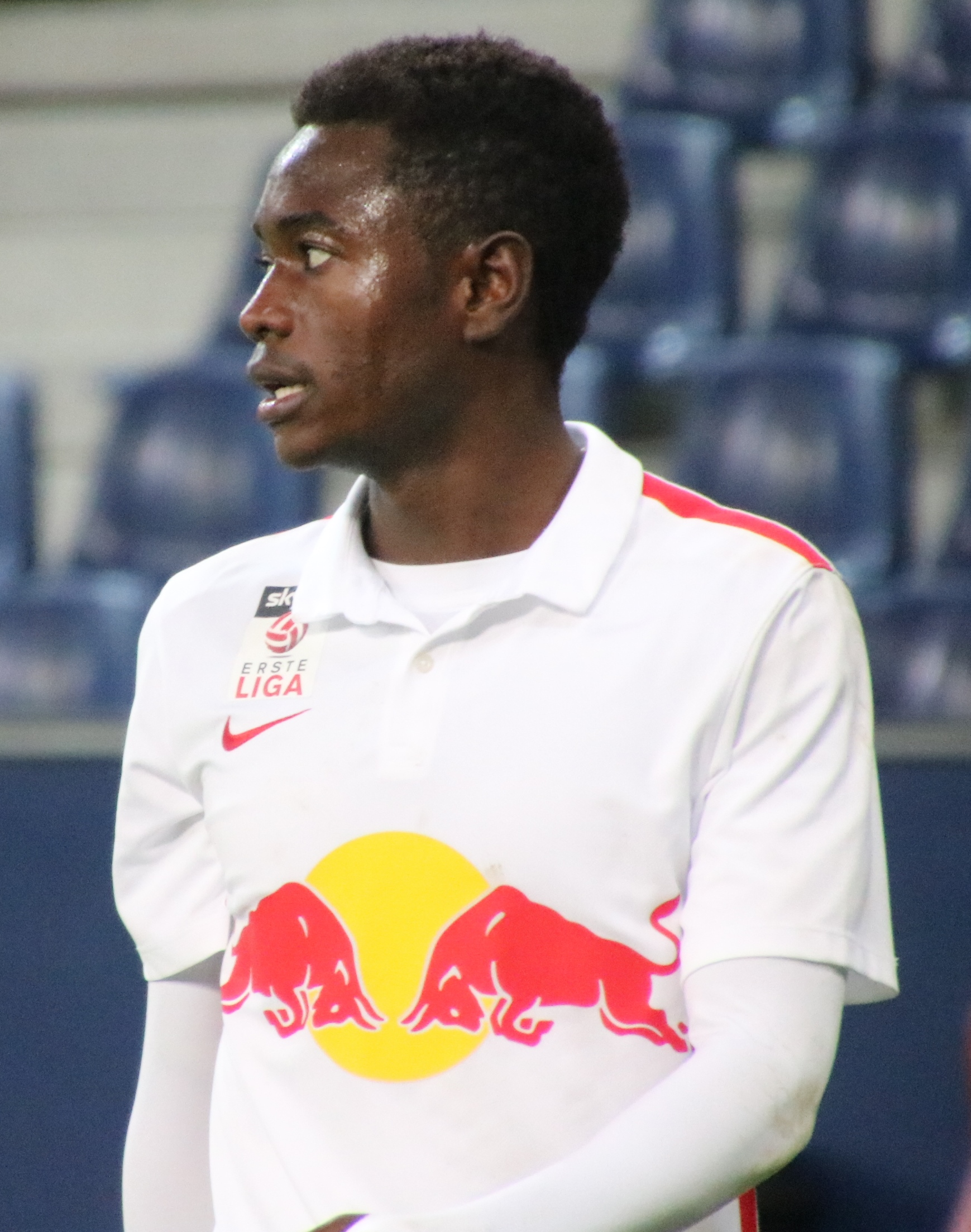 league match Austria 2nd league